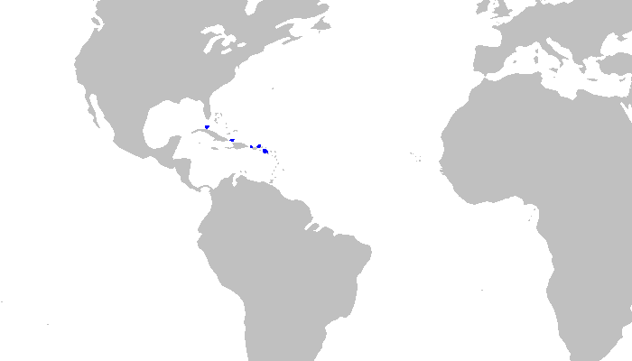 Distribution map for Galeus springeri